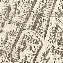 Arnold Mercator 1570 - Breite Straße